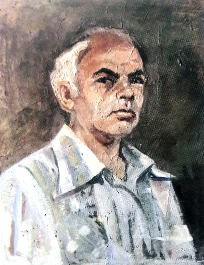 Self-portrait of the painter